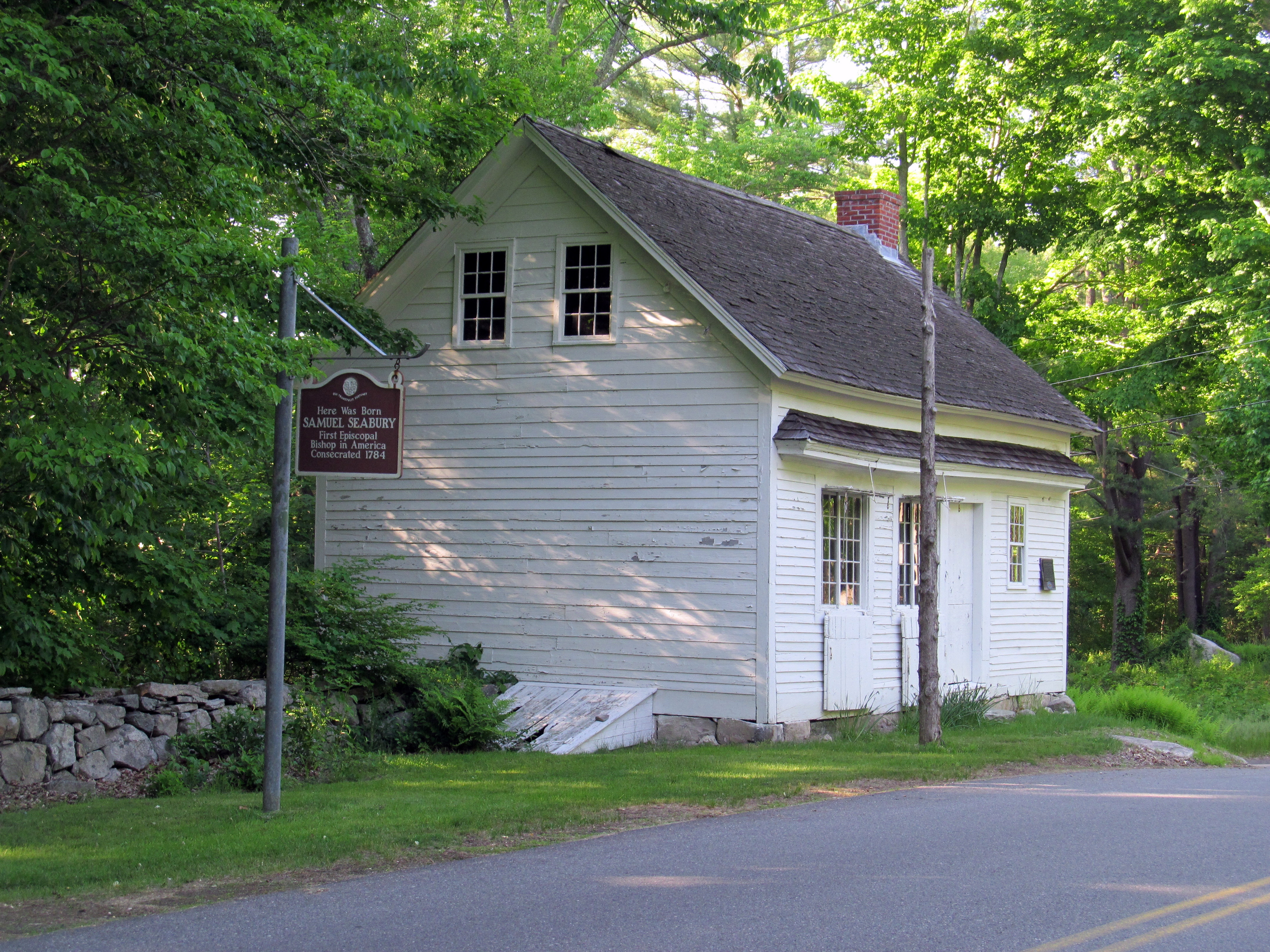 Gurdon Bill Store, an early store and stagecoach way station in Ledyard, Connecticut